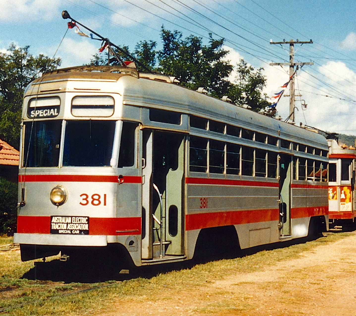 Municipal Tramways Trust Type H1 no. 381, of 1950s-modern appearance, in silver and carnation red paint scheme, at the terminus of the Colonel Light Gardens line at the intersection of Goodwood Road and Springbank Road, Adelaide. This is a cropped version of "MTT Type H1 tram no. 381 and Type F at Col. Light Gardens terminus, Adelaide, 1 April 1956.jpg".